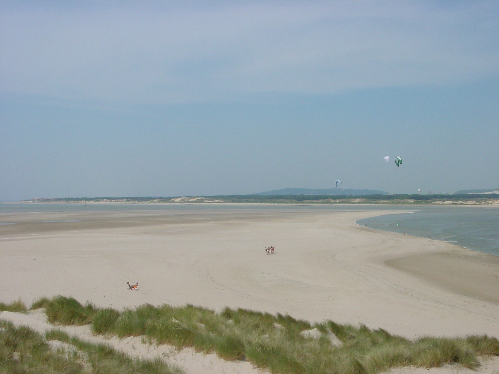 Estuary of Canche river (Pas-de-Calais, France) at low tide, from Le Touquet